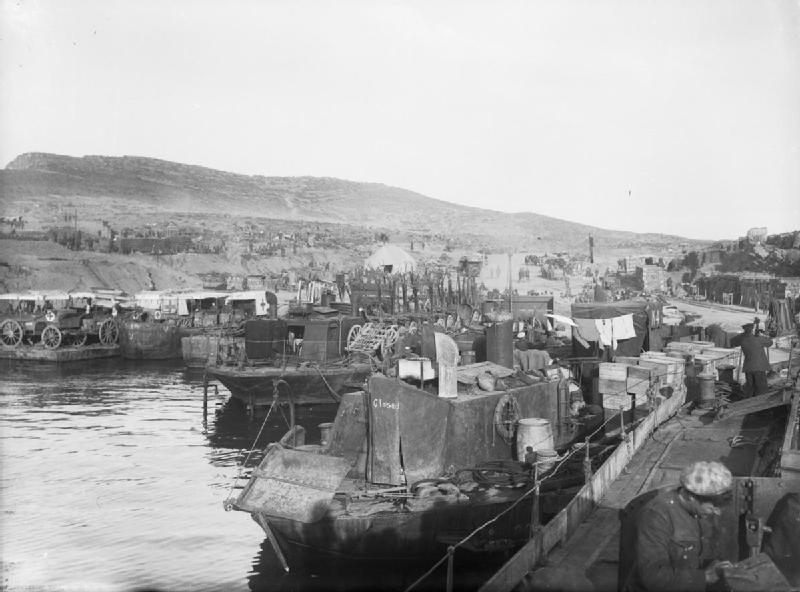 Allied evacuation of Gallipoli : Loaded "Beetles" in the harbour at "A" West Beach, Suvla Point.